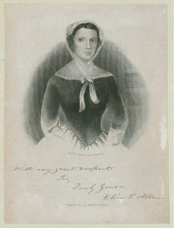 Frontispiece of a book by Eliza Allen, signed by the author